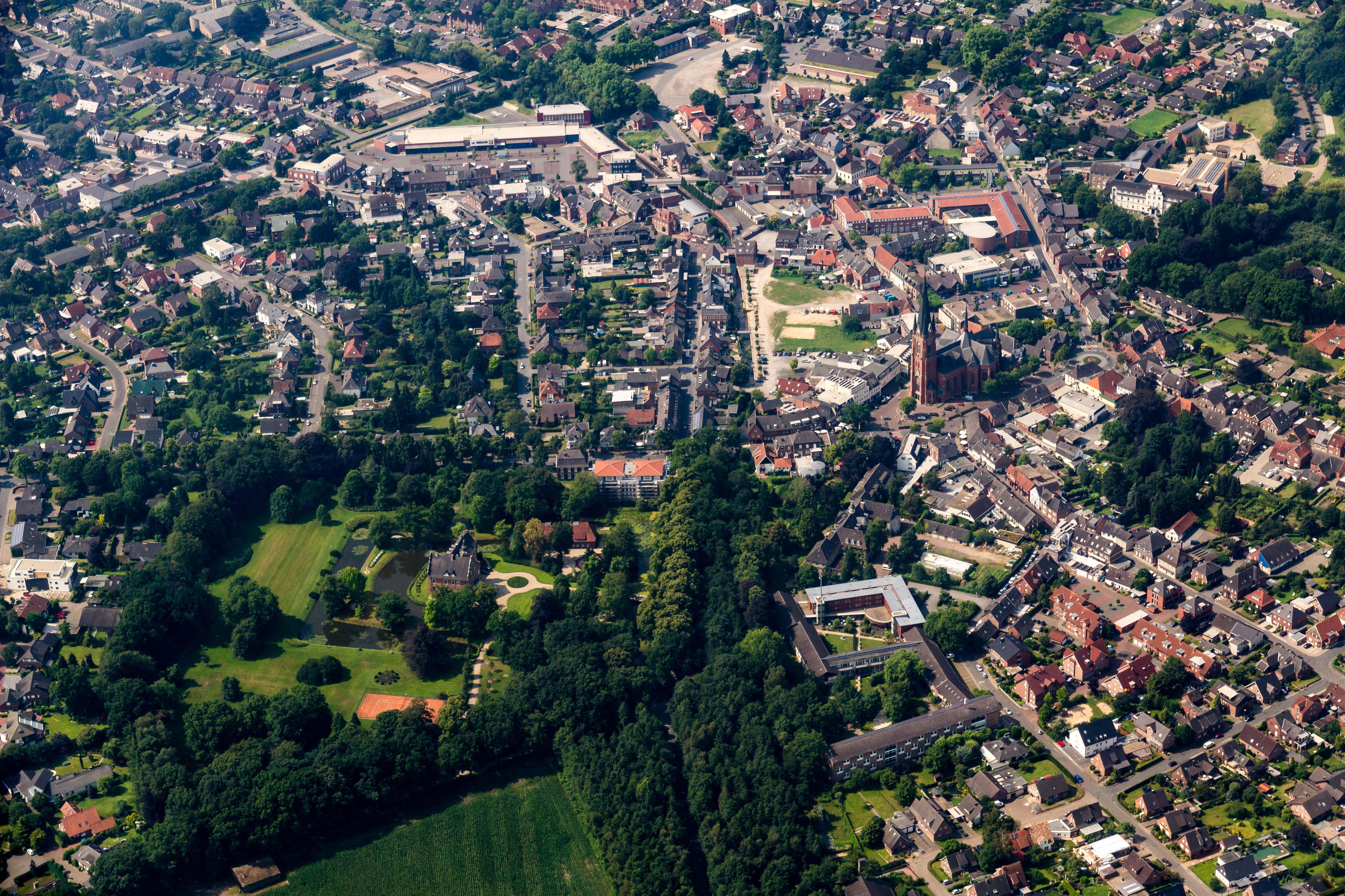 Rhede, North Rhine-Westphalia, Germany